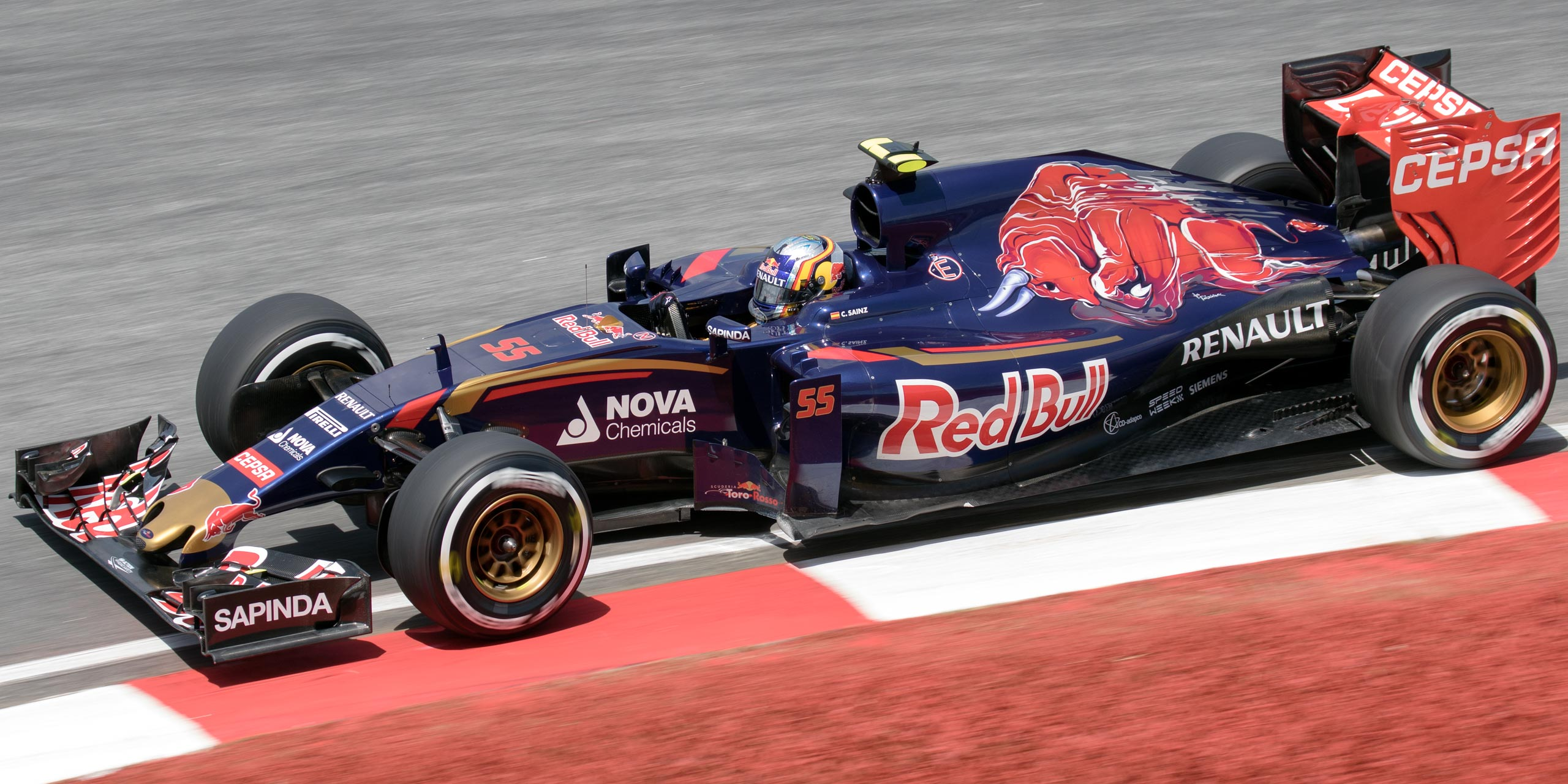 Formula One 2015 Rd.2 Malaysian GP: Carlos Sainz Jr. (Toro Rosso)